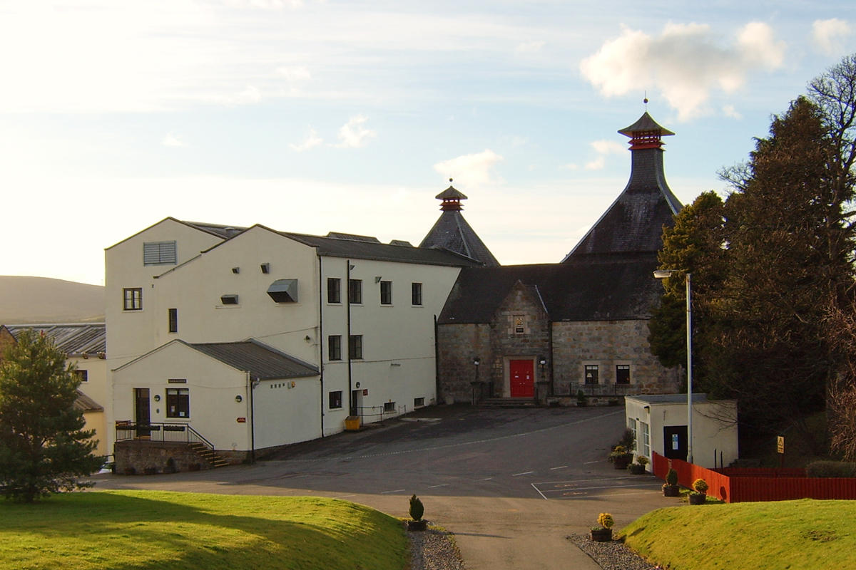 Cardhu distillery near Aberlour in Banffshire, Scotland